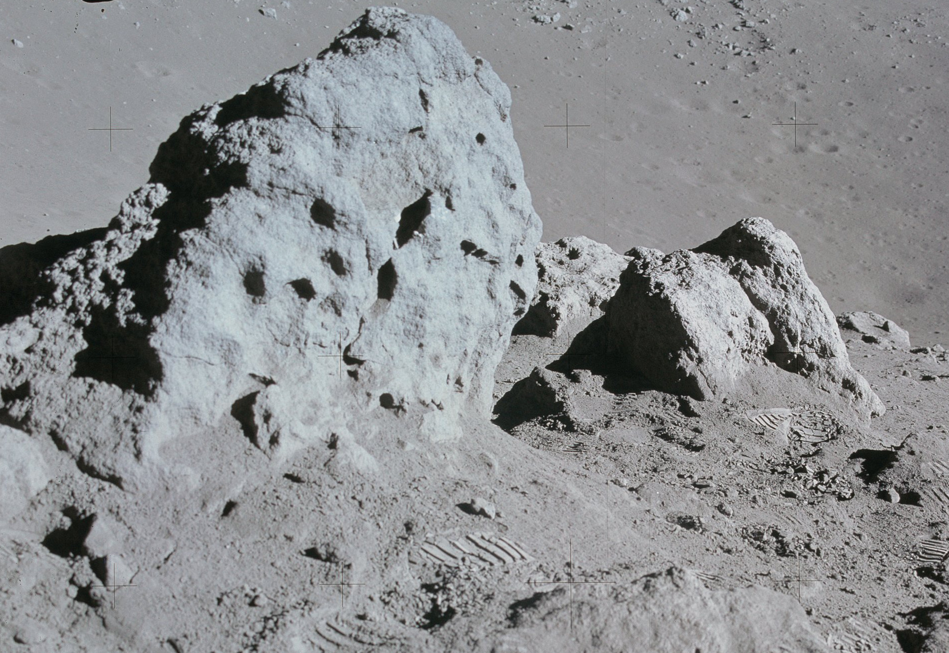 Basalt boulders on south rim of Dune crater, Hadley-Apennine, the moon. Taken at Geology Station 4 on the Apollo 15 mission. This is cropped to mimic Figure 3-23 of the Apollo 15 Preliminary Science Report (NASA SP-289, 1972), which has the following caption: Much of the activity at station 4 was devoted to the boulders shown in this photograph. These boulders are basalts and represent material excavated during the formation of Dune Crater. The crew reported that vesicles were abundant in the boulders at this location and that some vesicles were as large as 9 cm in diameter. The abundance and size of the vesicles in these boulders suggest that this basaltic material cooled on or very near the lunar surface (AS15-87-11779).